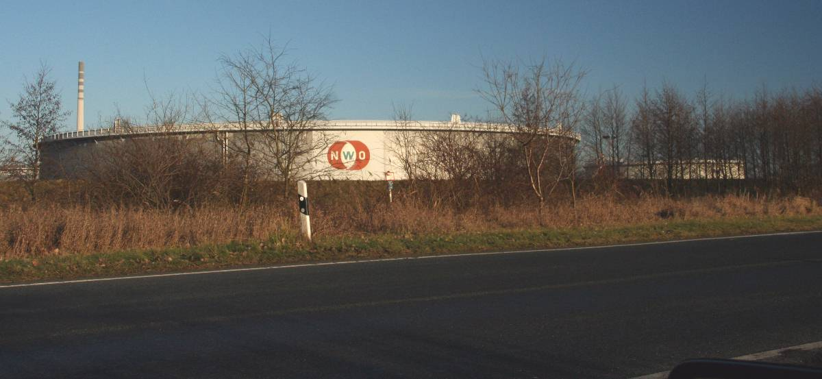 Storage tanks at the NWO pipeline main areal